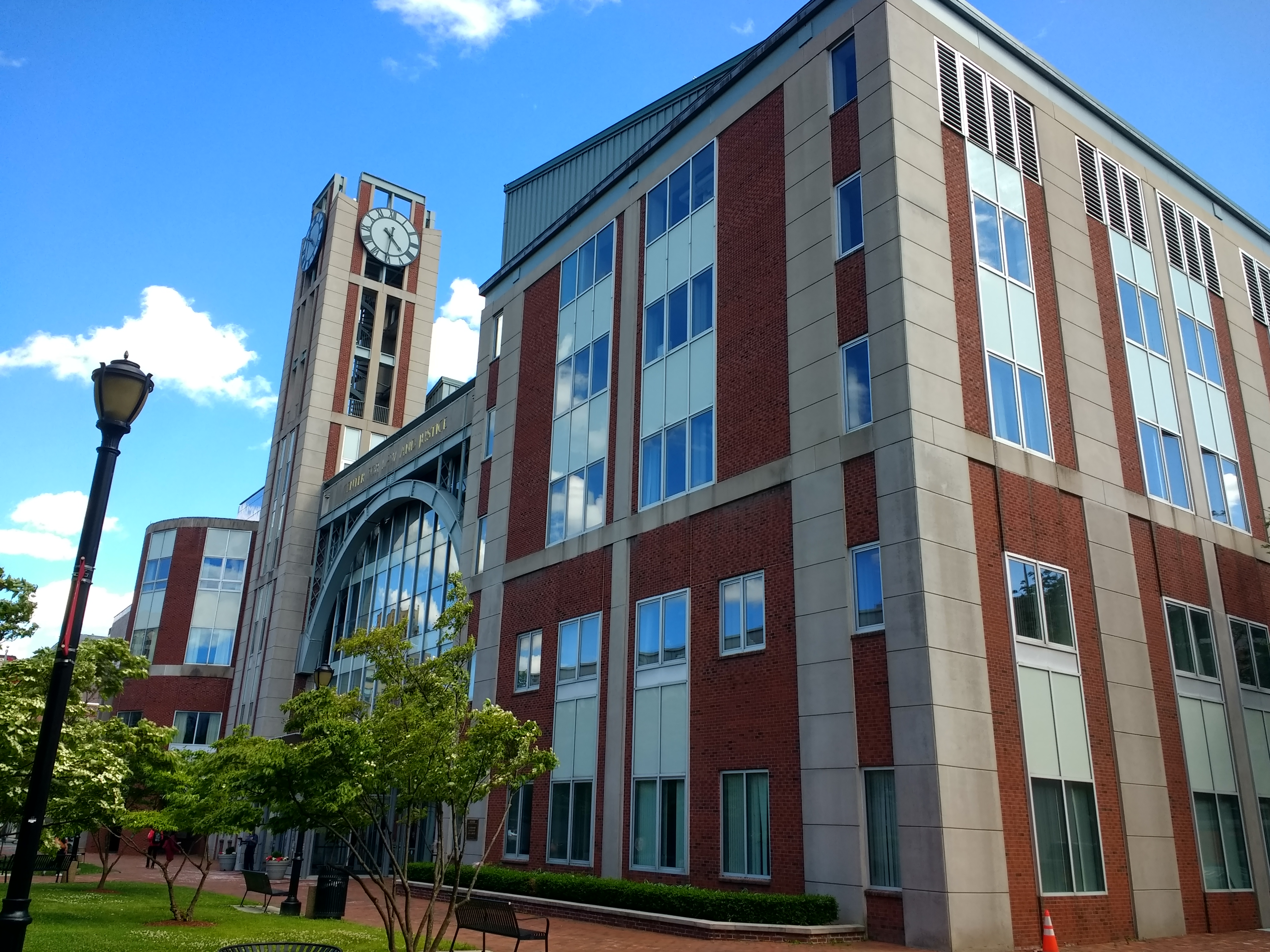 The Center for Law and Justice, home to Rutgers Law School in Newark, New Jersey